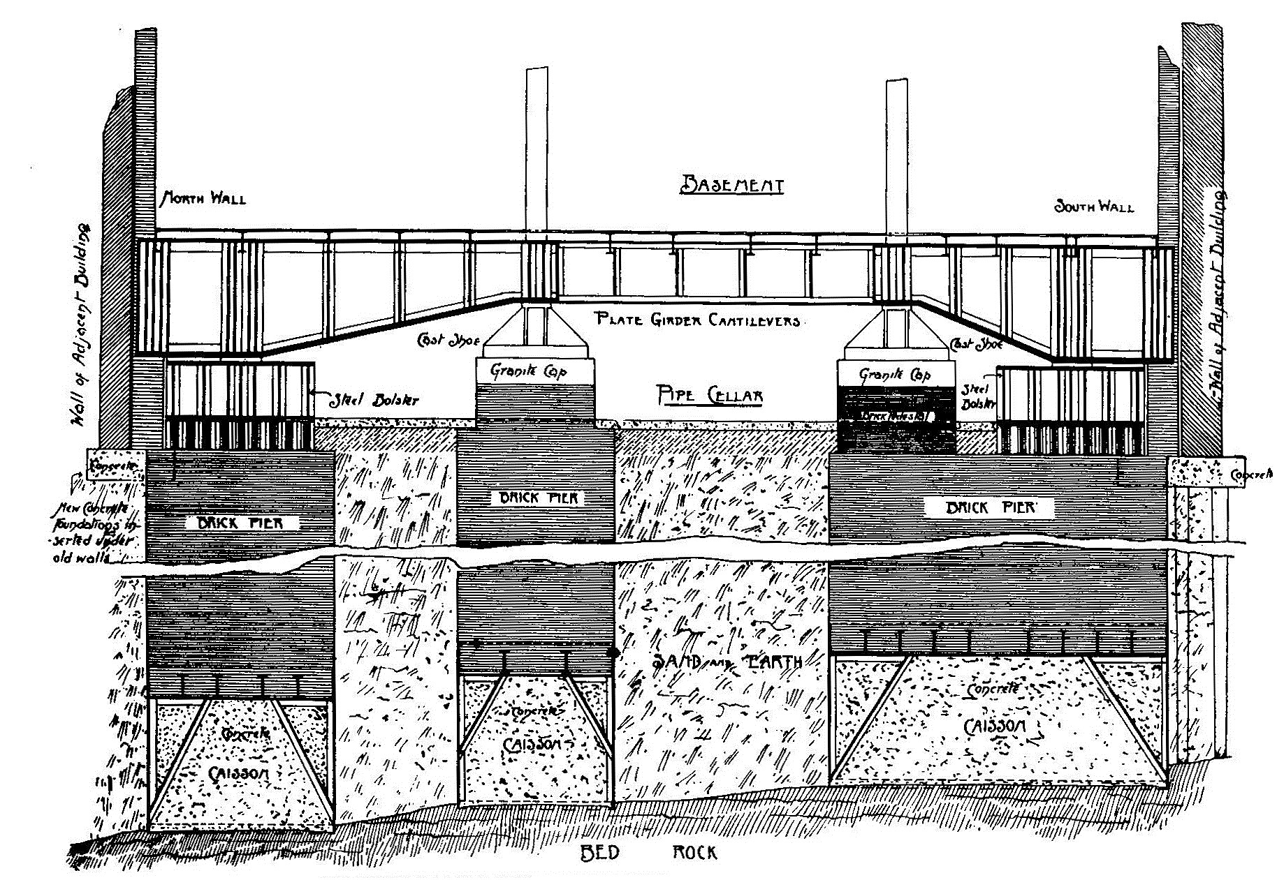 Diagram of caissons, 1898